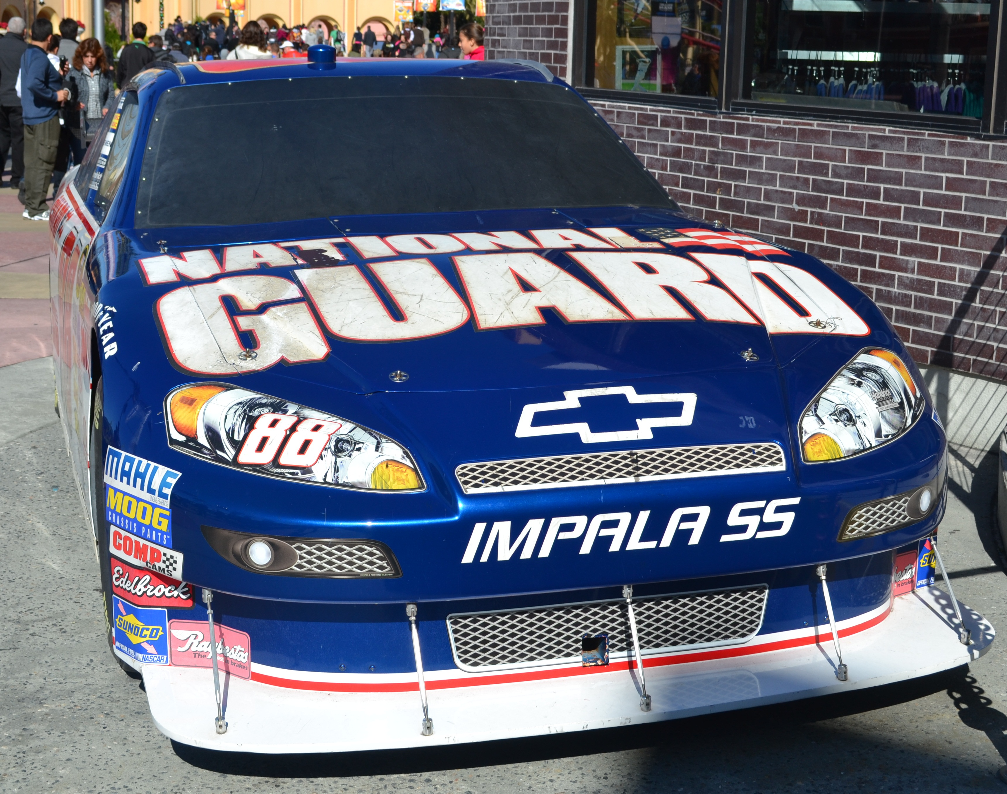 Chevrolet Impala SS NASCAR photographed in Orlando, Florida, USA at Universal Studios Orlando.